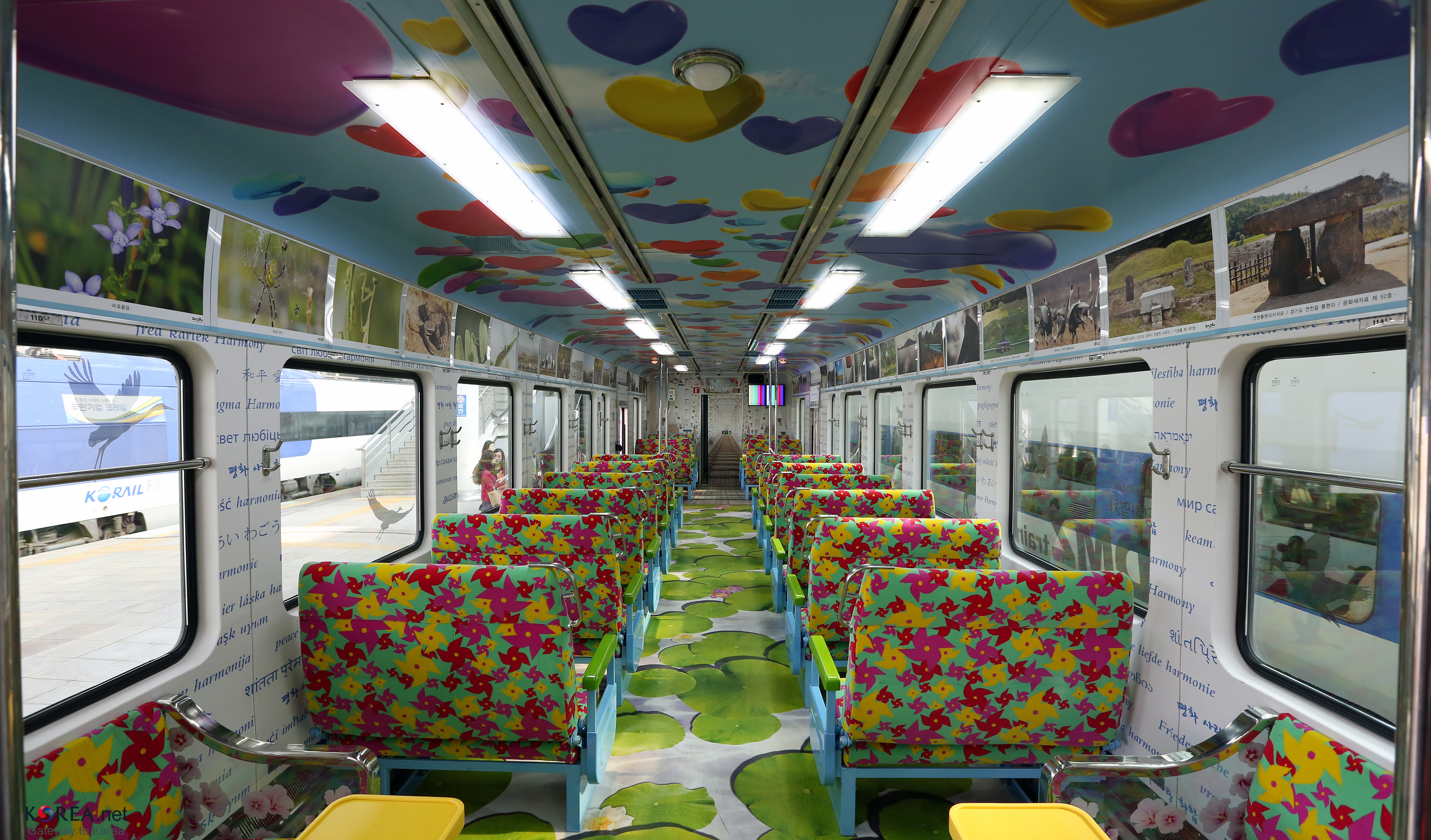 DMZ Train